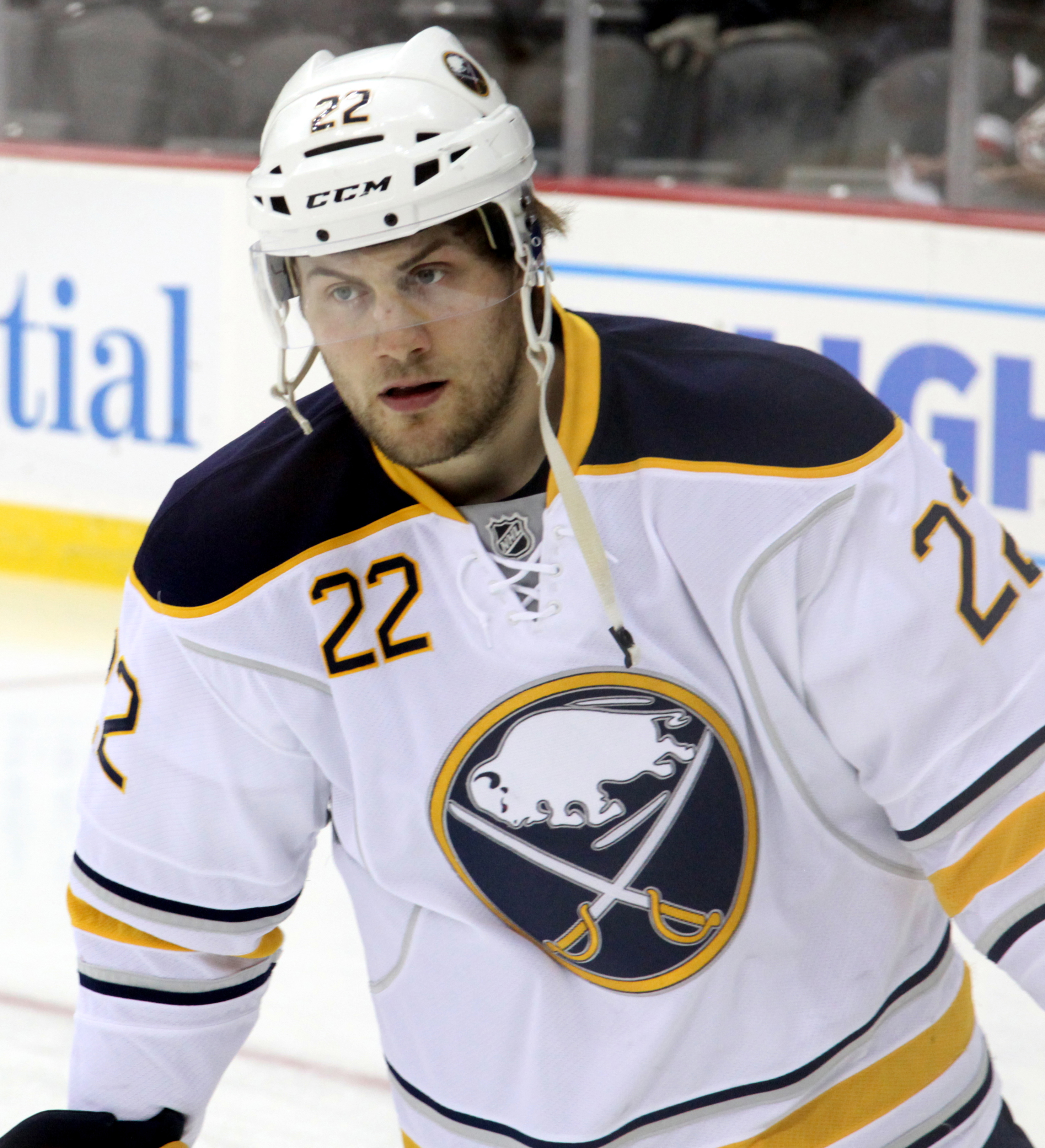 Johan Larsson in April 2016.